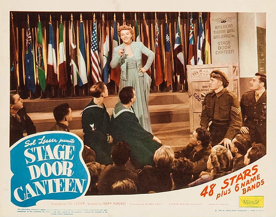 Lobby card for the 1943 film, Stage Door Canteen